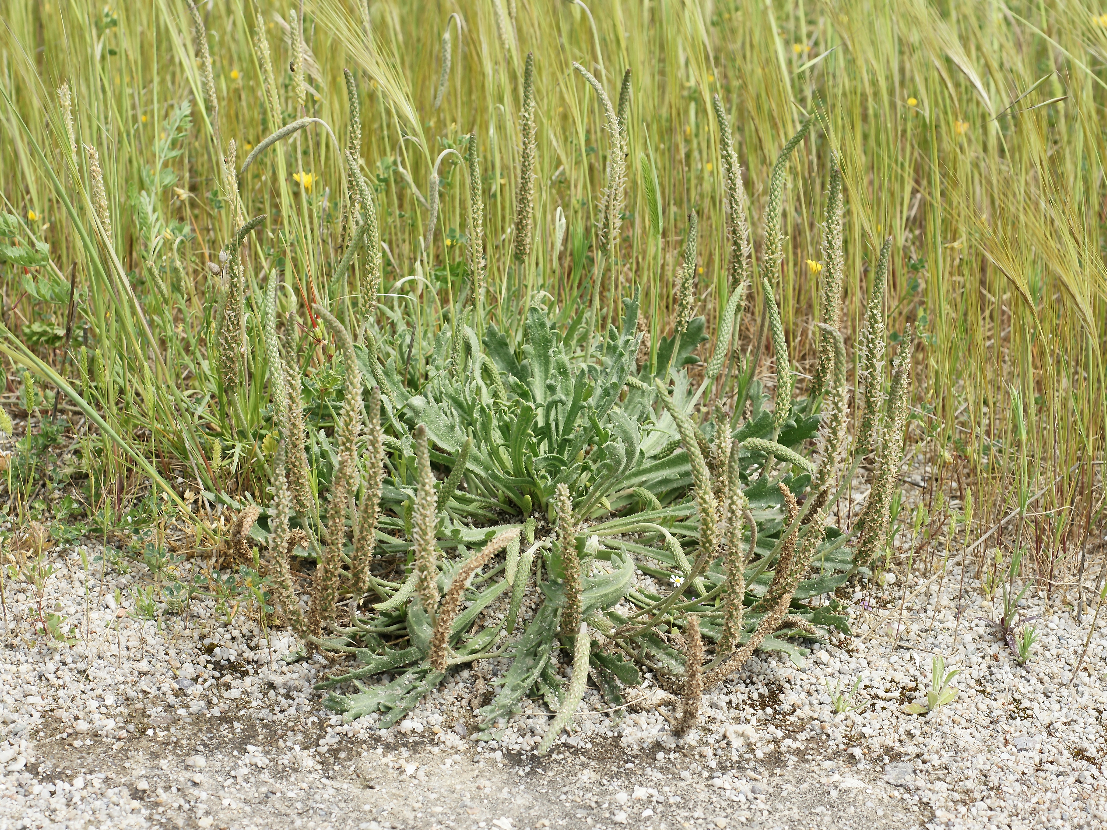 Buckshorn Plantain at Torre Grande, Sardinia, Italy.